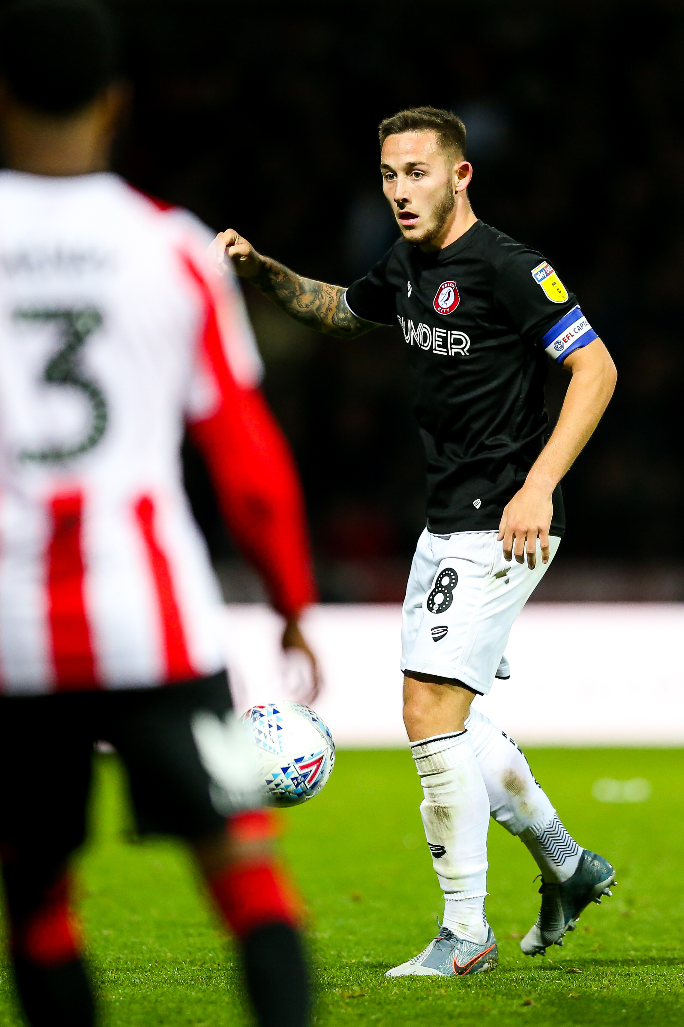 Josh Brownhill of Bristol City in action against Brentford at Griffin Park in the Sky Bet Championship